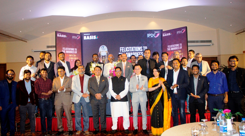 BASIS has Given Grand Reception to the Winners of APICTA Awards 2019